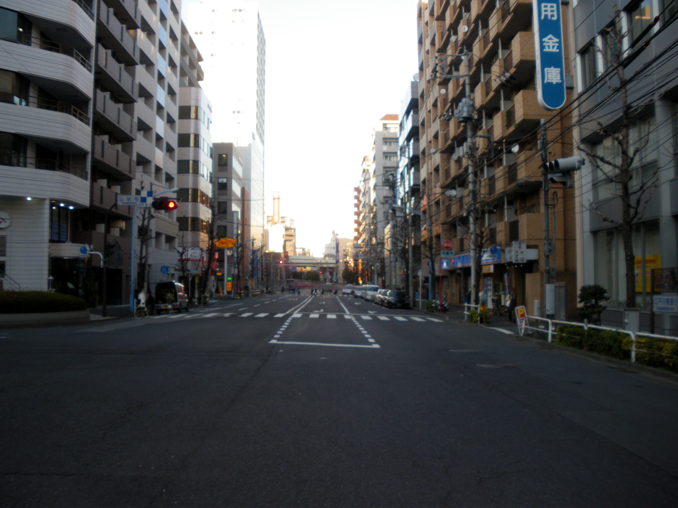 Edogawabashi Street(Shinjuku,Tokyo)